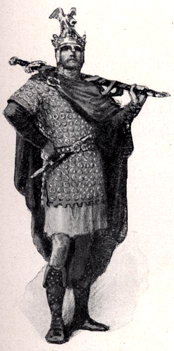 King Arthur in William Henry Margetson's illustration for Legends of King Arthur and His Knights.